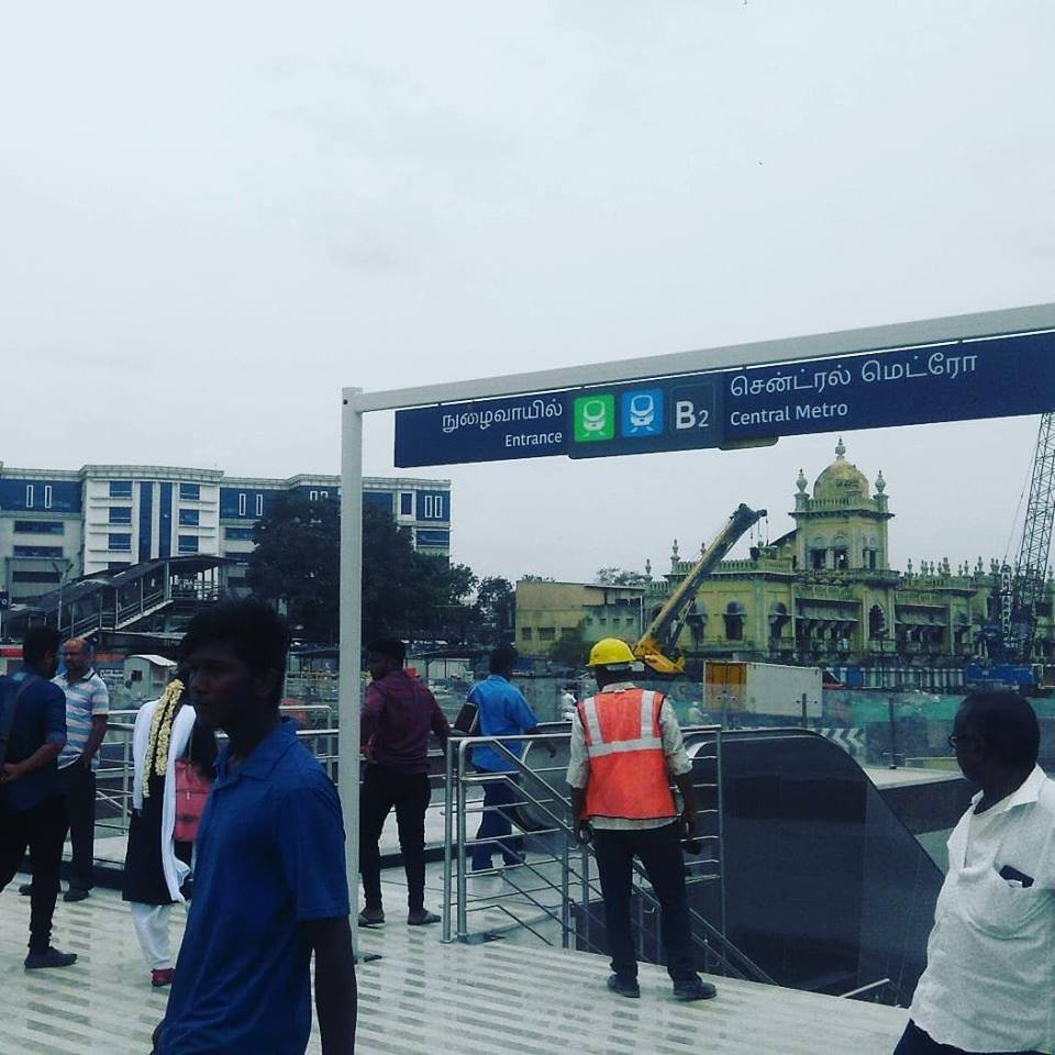 Centralmetrochennai